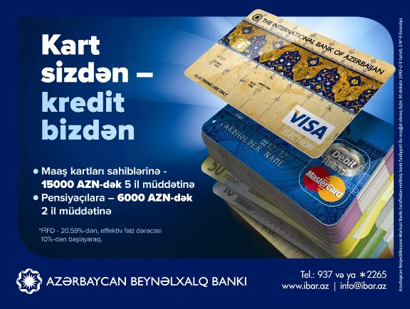 Marketing flier for IBA customer credit cards.